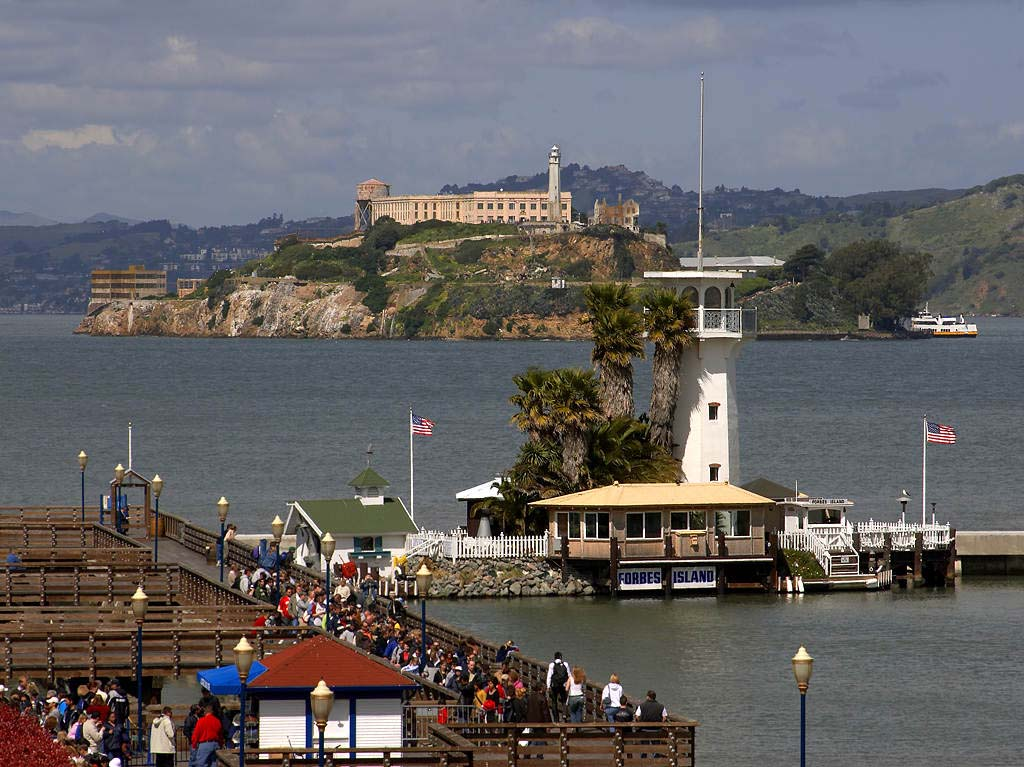 Photo of Forbes Island in SF